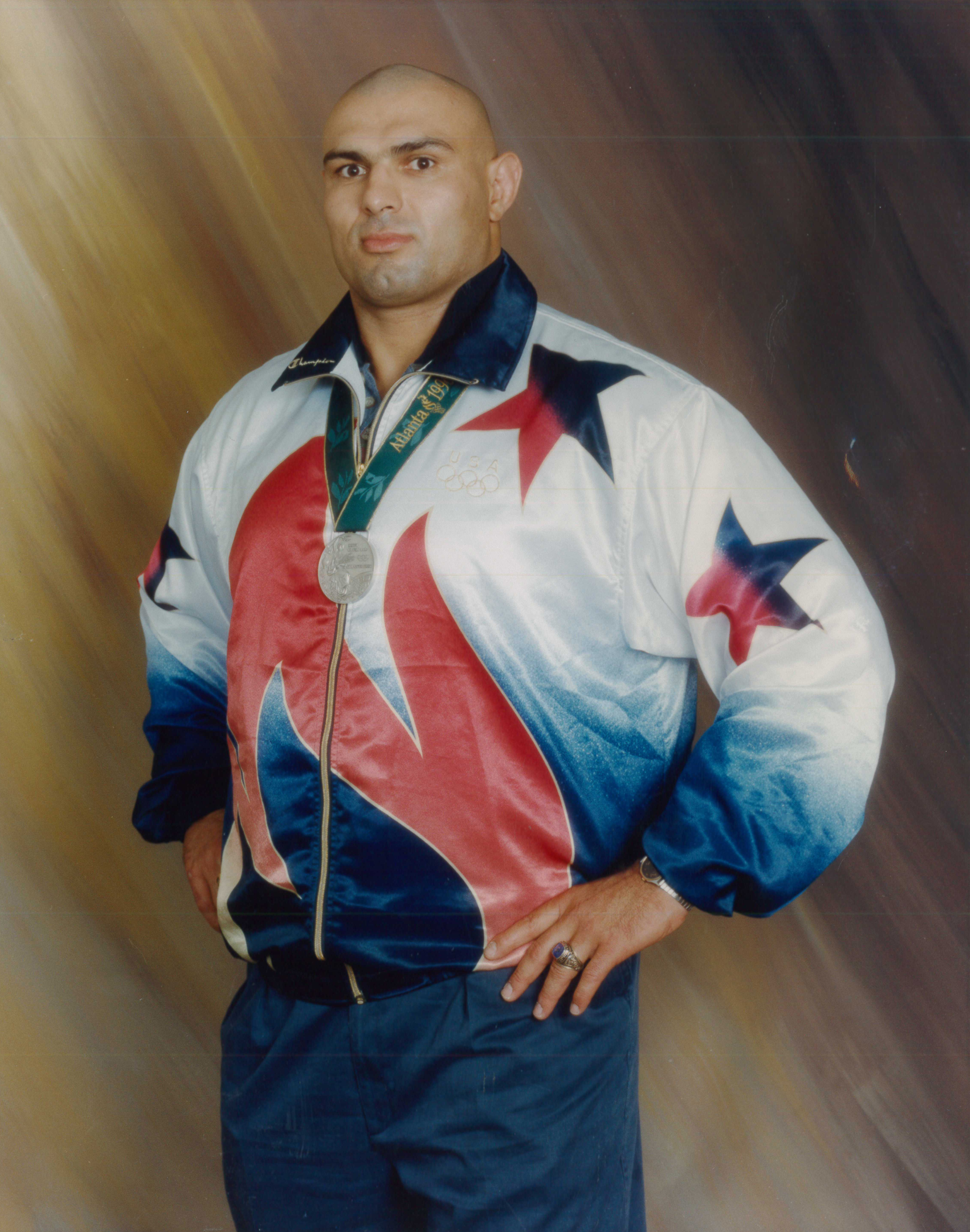 Matt Ghaffari, 1996 Olympic Silver Medalist